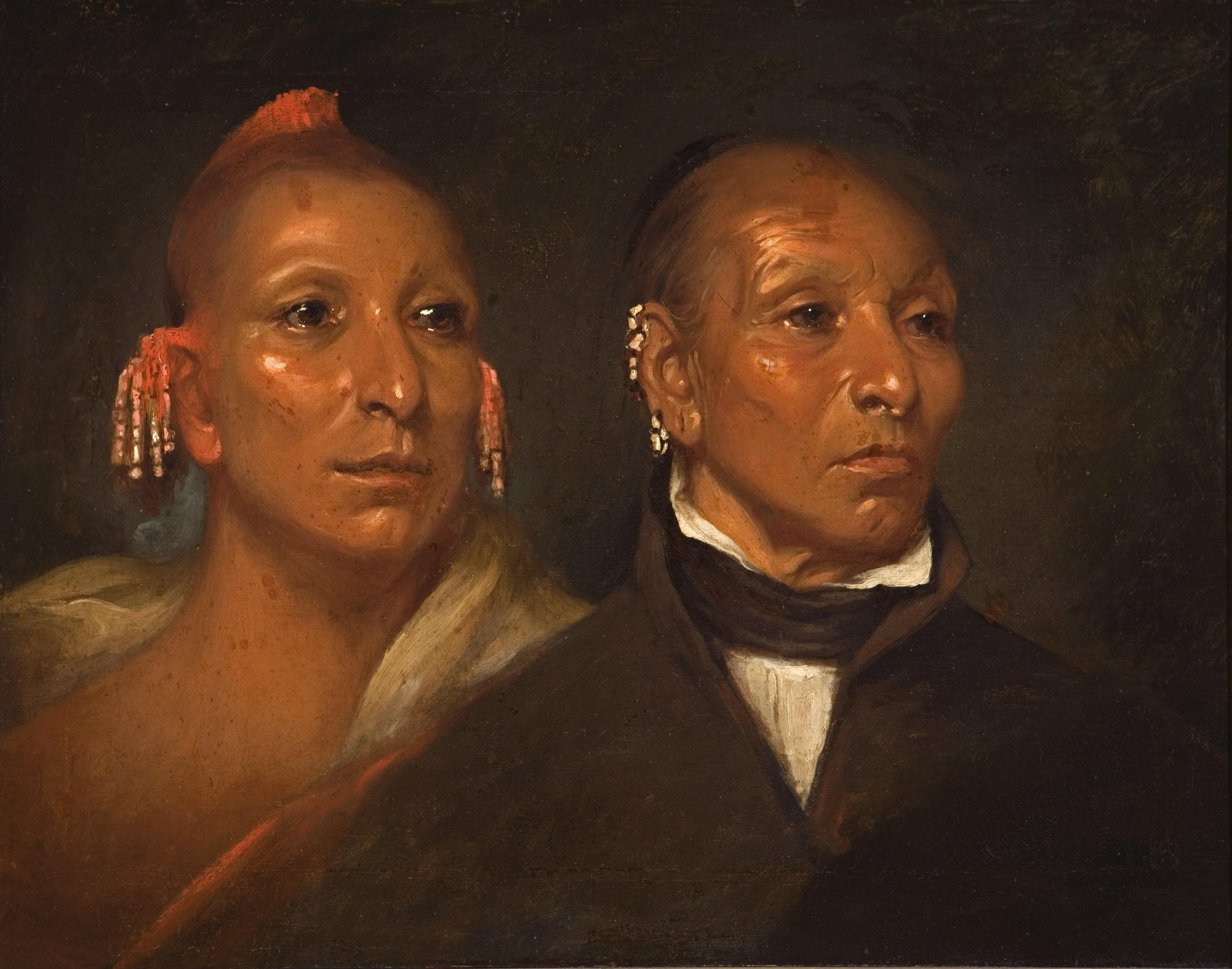 Title(s): Black Hawk and His Son Whirling Thunder Creator(s): John Wesley Jarvis Culture: American Date: 1833 Materials/Techniques: oil on canvas Dimensions: Framed: 29 11/16 × 38 15/16 × 4 1/8 in. (75.4 × 98.9 × 10.5 cm) Image: 23 1/4 × 30 in. (59.1 × 76.2 cm) Gift of the Thomas Gilcrease Foundation, 1955 Accession No: 0126.1007